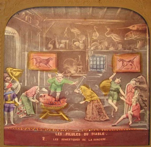 Hand-coloured stereoscope image, circa 1870, of a scene from the popular French féerie (fairy play) Les Pilules du diable.